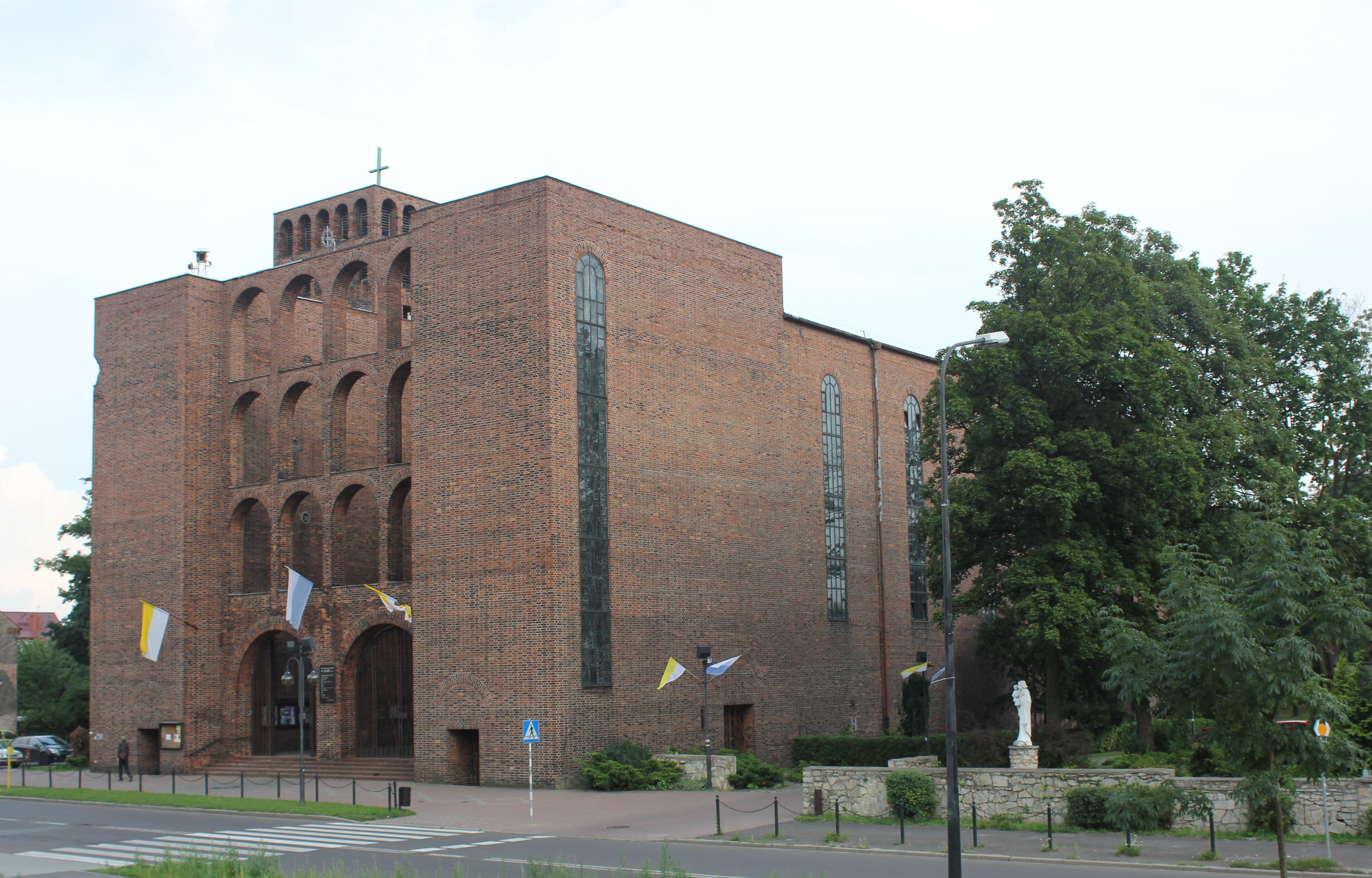 Zabrze - St. Joseph's church